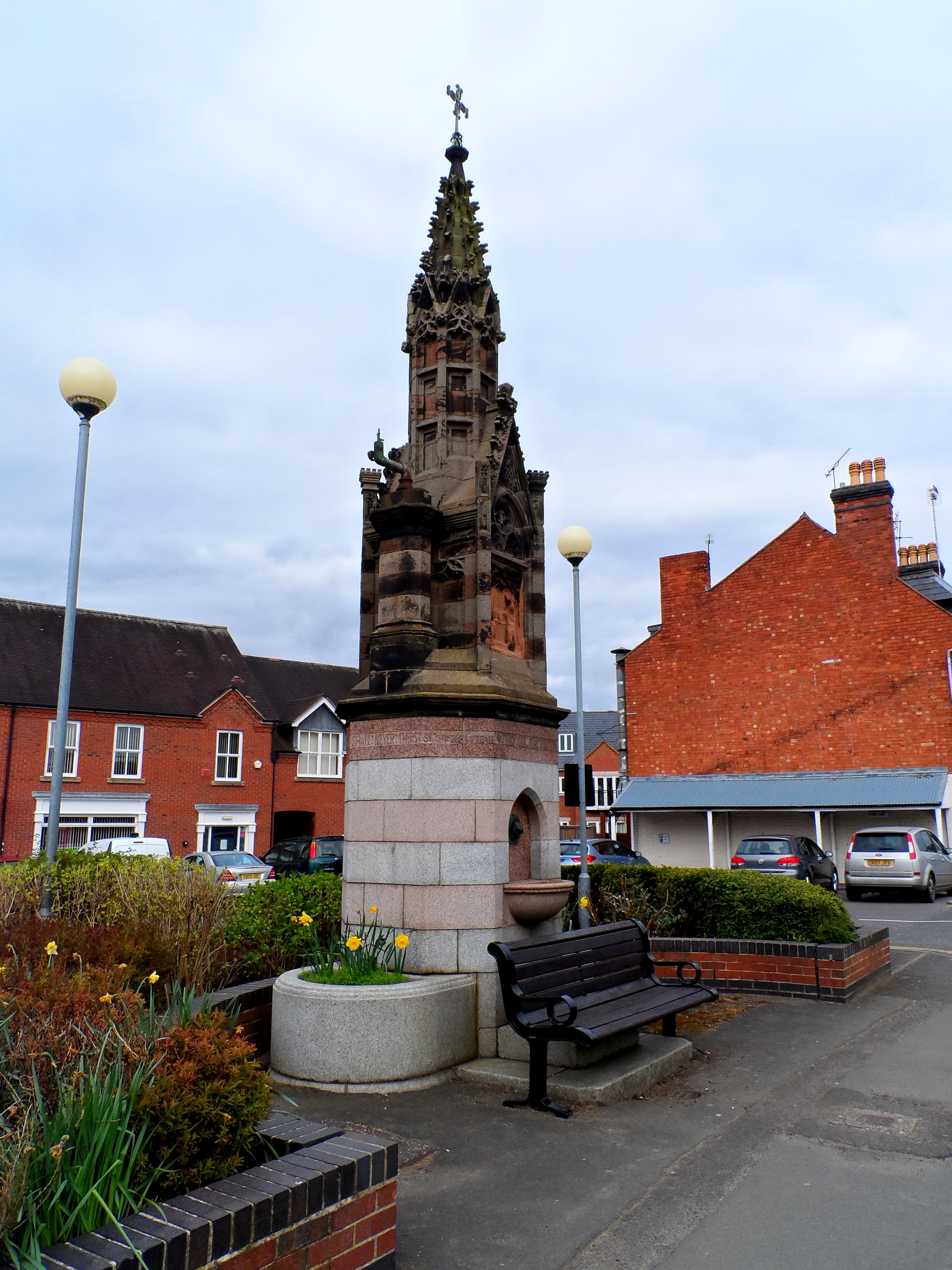 Photograph of the Churton Memorial Fountain, Whitchurch, Shropshire, England